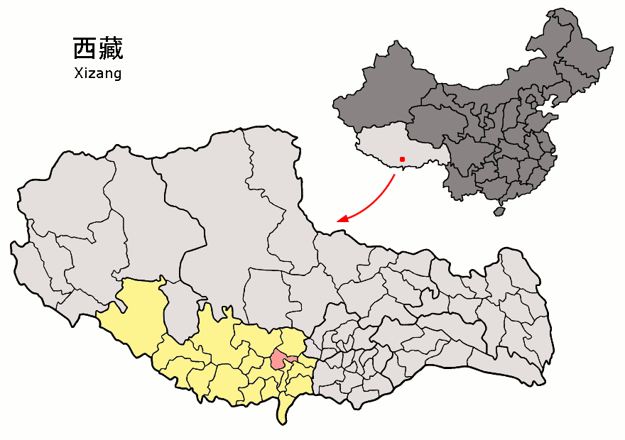 Location of Xigazê County (pink) and Xigazê Prefecture (yellow) within Tibet (Xizang) autonomous region of China